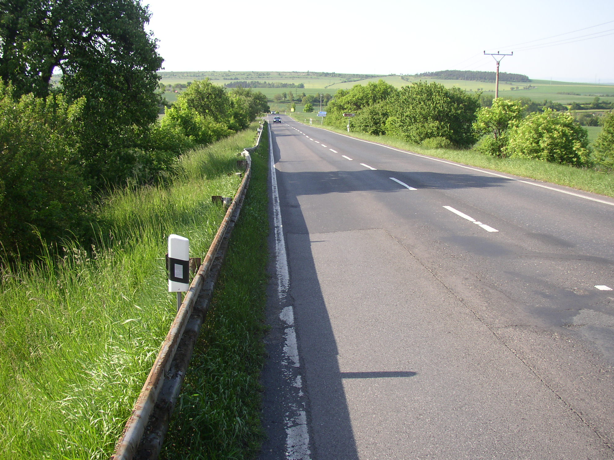 Road II/118 about 2.5 km north of Slaný descending towards village of Želevčice. Kladno District, Central Bohemian Region, Czech Republic).